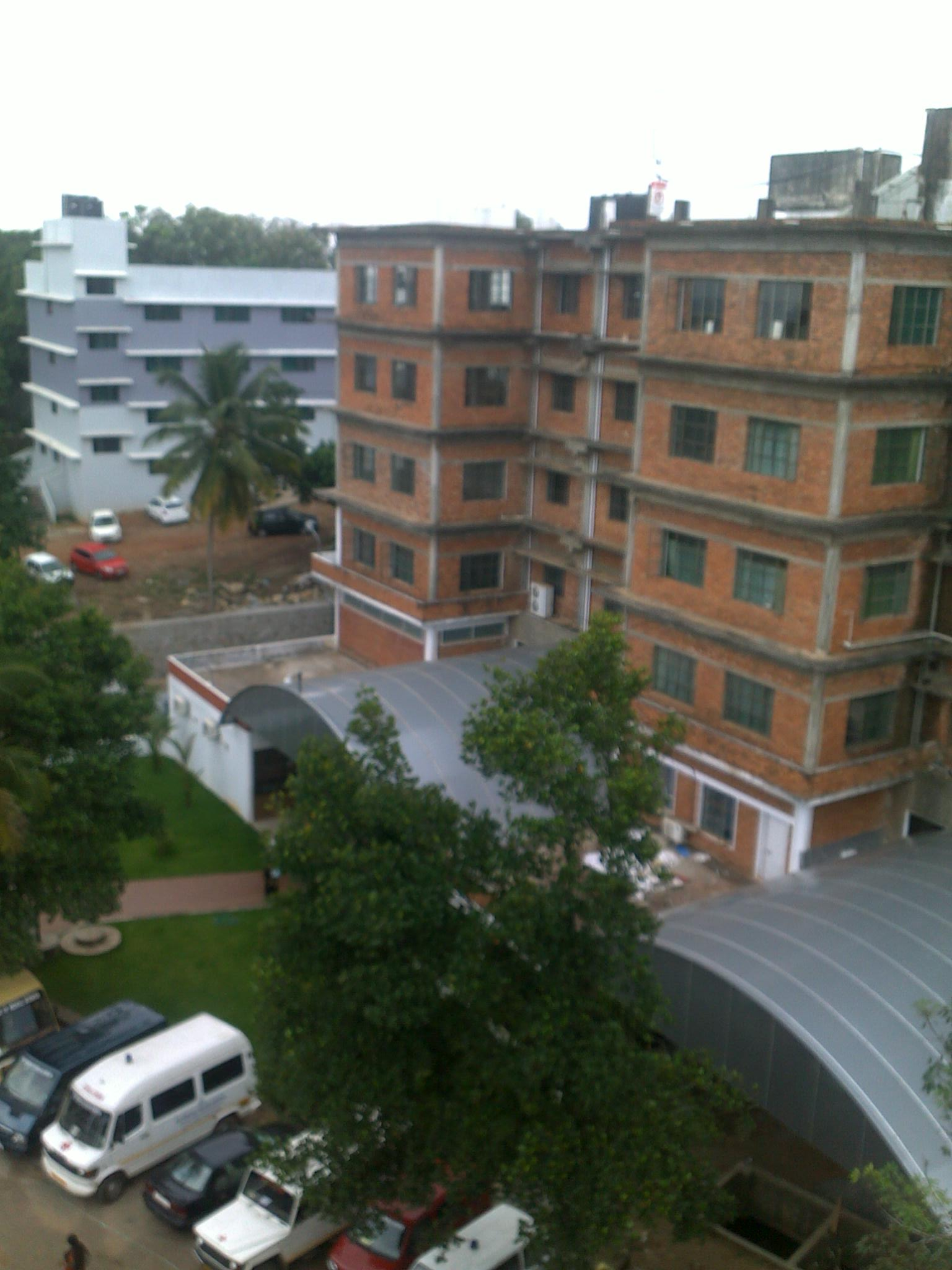 The campus along with new hostel.